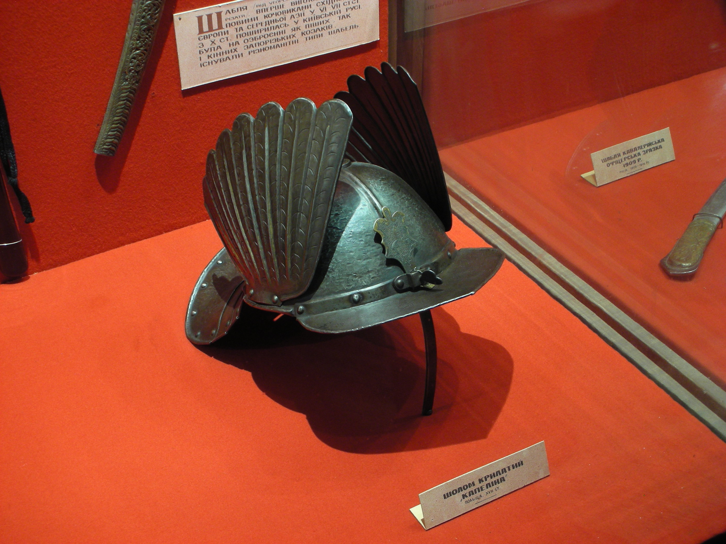 "Arsenal" Museum in Lviv (Ukraine).